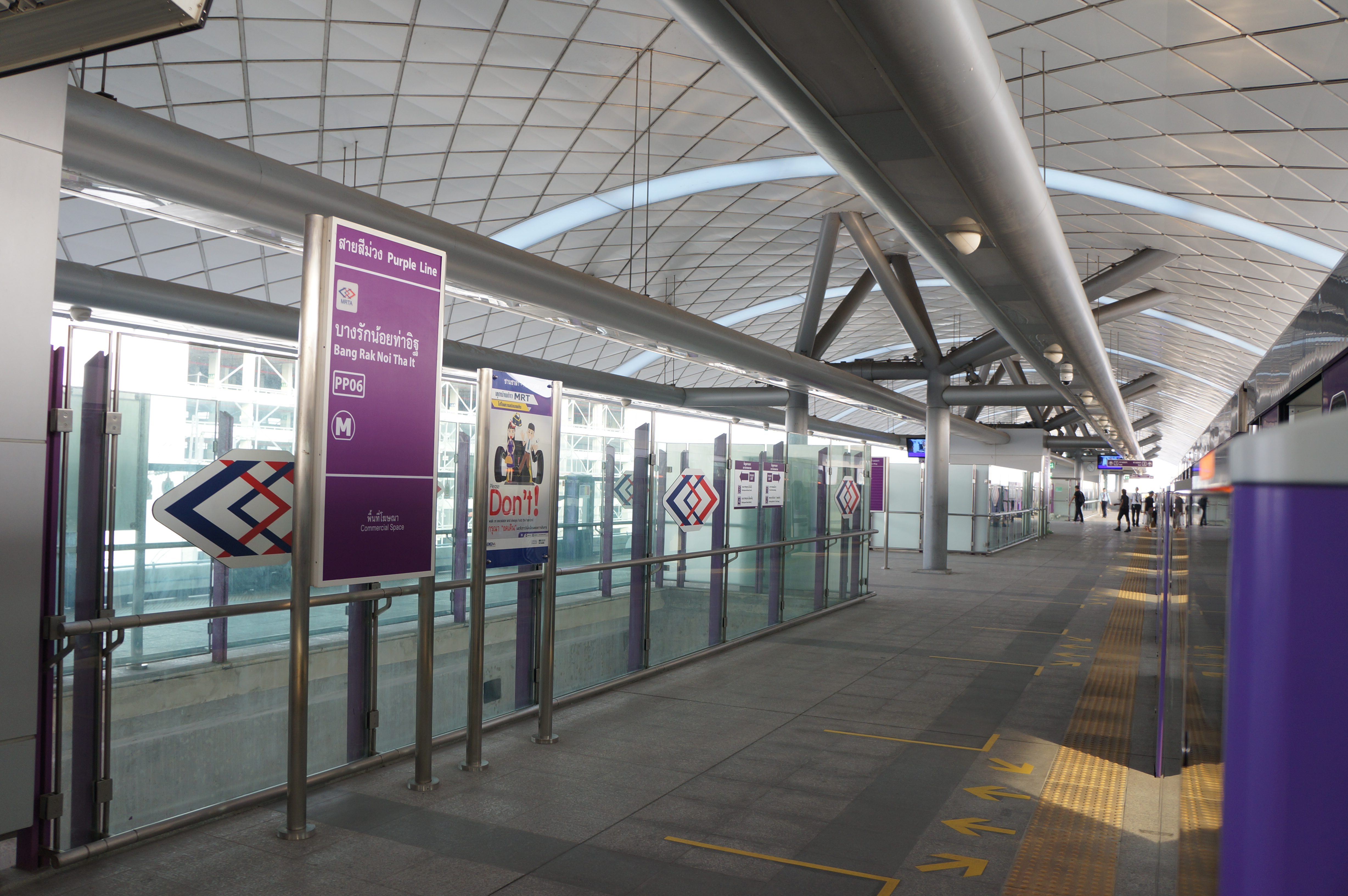 201701 Bang Rak Noi Tha It Station. The pronunciation of "Tha It" is so weird.